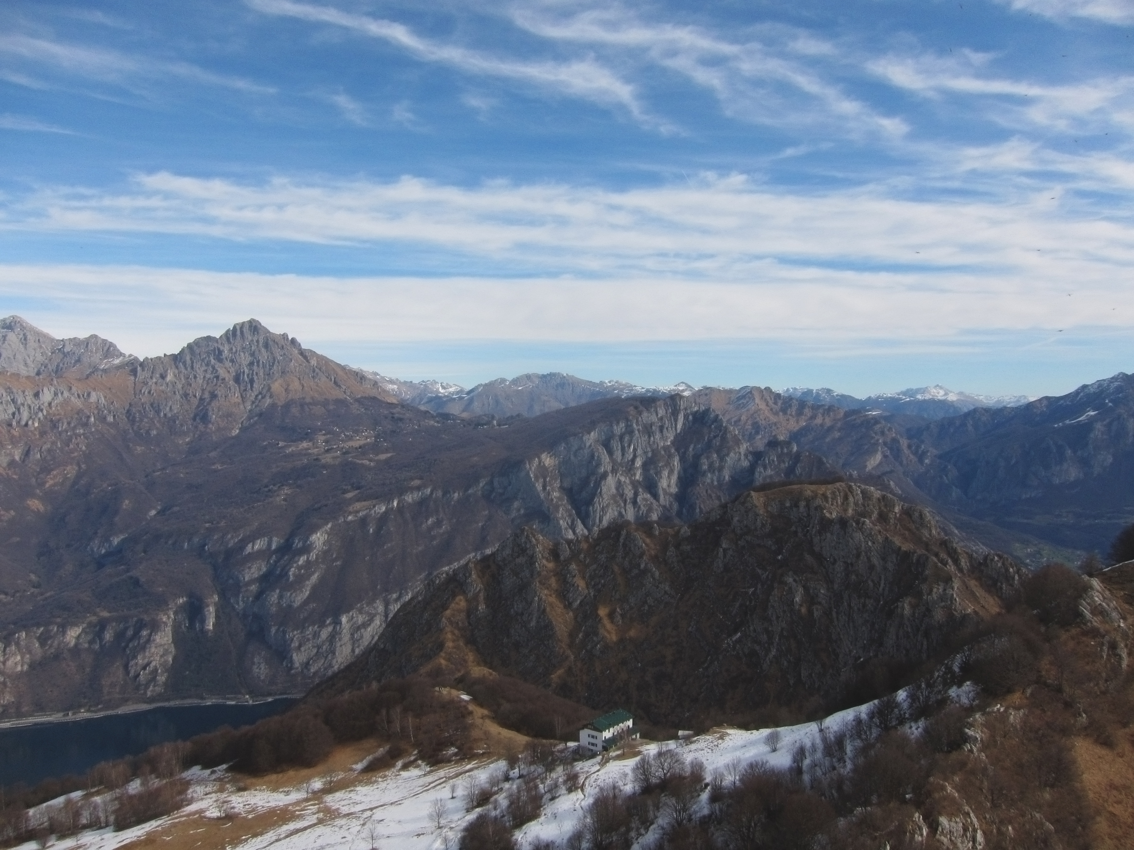 Picture taken from the summit of Corno di Canzo Occidentale of the top of Corno di Canzo Orientale 1232 masl. Just under the summit is located the alpine hut "Rifugio S.E.V.". In the background there is the lake of Como and the mount Grigna. Picture taken in the municipality of Canzo, province of Como, region of Lombardy in Italy on the 2nd of March 2019. 2019-03-02